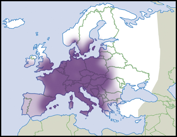 Lucilla singleyana (Pilsbry, 1889). Distributional range in Europe, scientific state of knowledge of 2012. Source description in English. Light colour indicated rare occurrences or regions where the species could eventually be expected to occur. Dark colour indicated relatively reliable occurrences, as well as regions where the species was expected to occur, and where the species was not known to be extremely rare. Dark colour indications were not necessarily based on published records. Species summary in AnimalBase